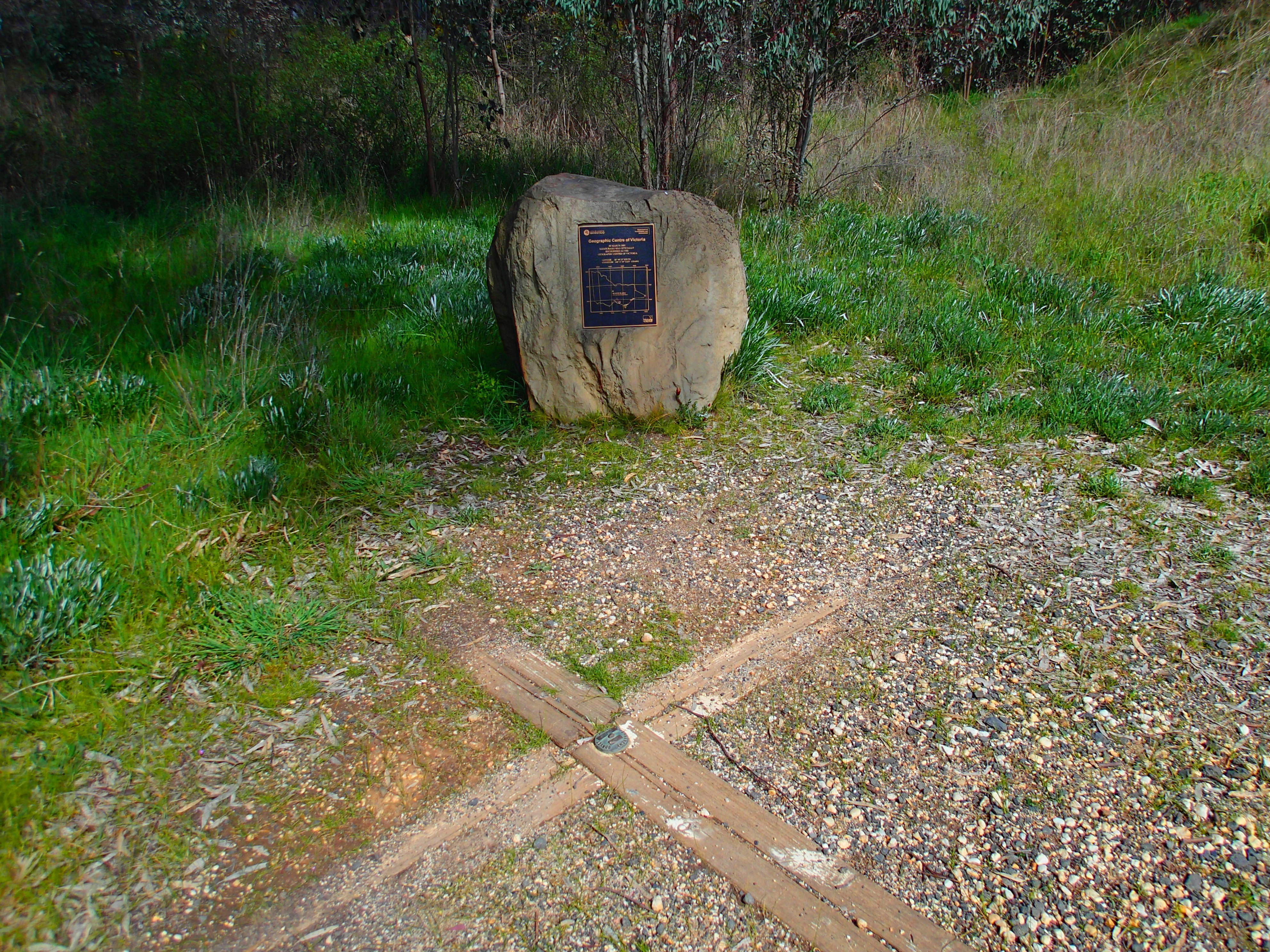 Marker for the geographic centre of the Australian state of Victoria, Mandurang. The plaque reads: Geographic Centre of Victoria In March 2001 Mandurang was officially recognised as the geographic centre of Victoria. Latitude: 36° 49' 23" South Longitude: 144° 17' 39" East (GDA 94).